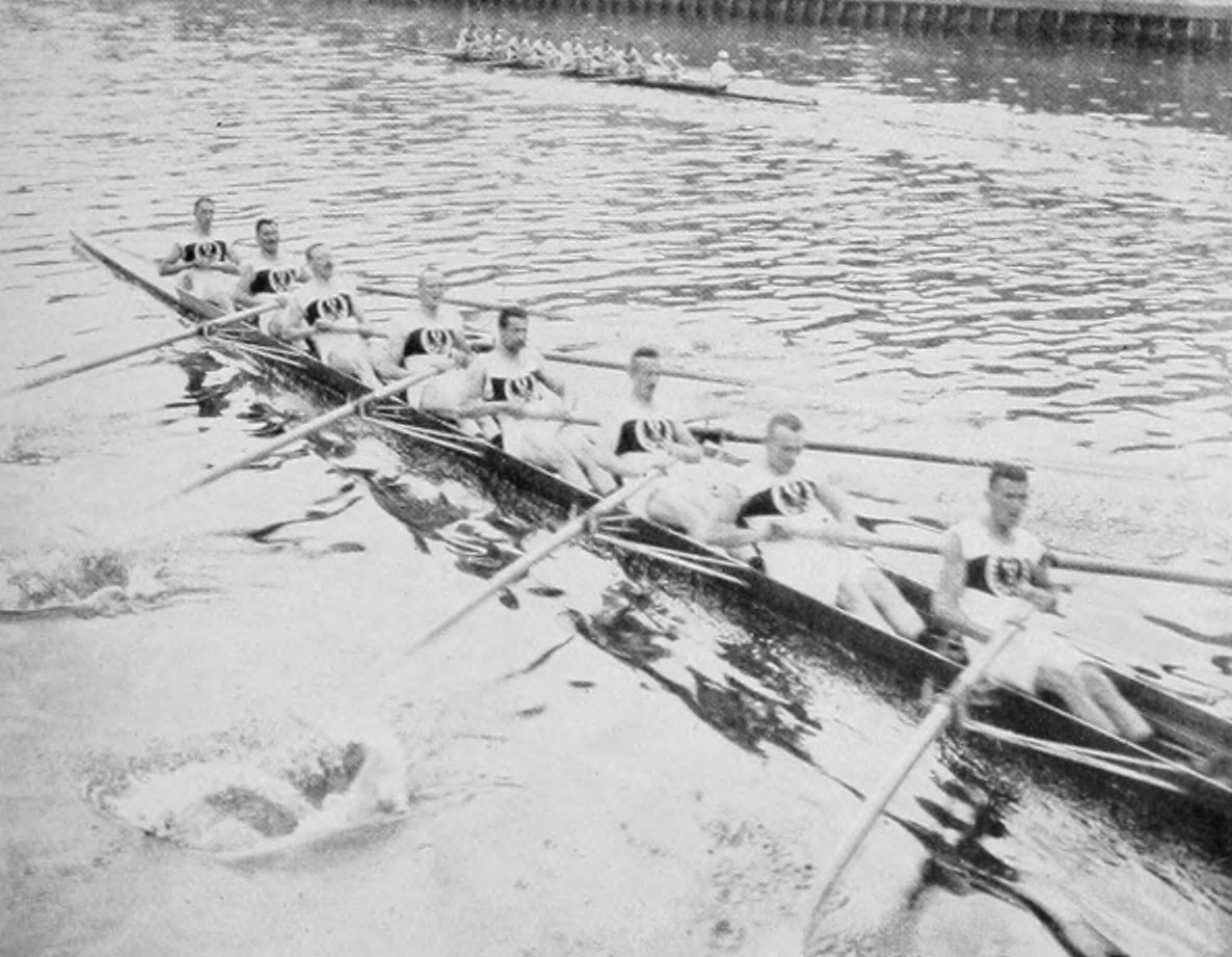 The German eights of Borussia in the quarter-finals of the 1912 Summer Olympics with the winning Berlin in the background.